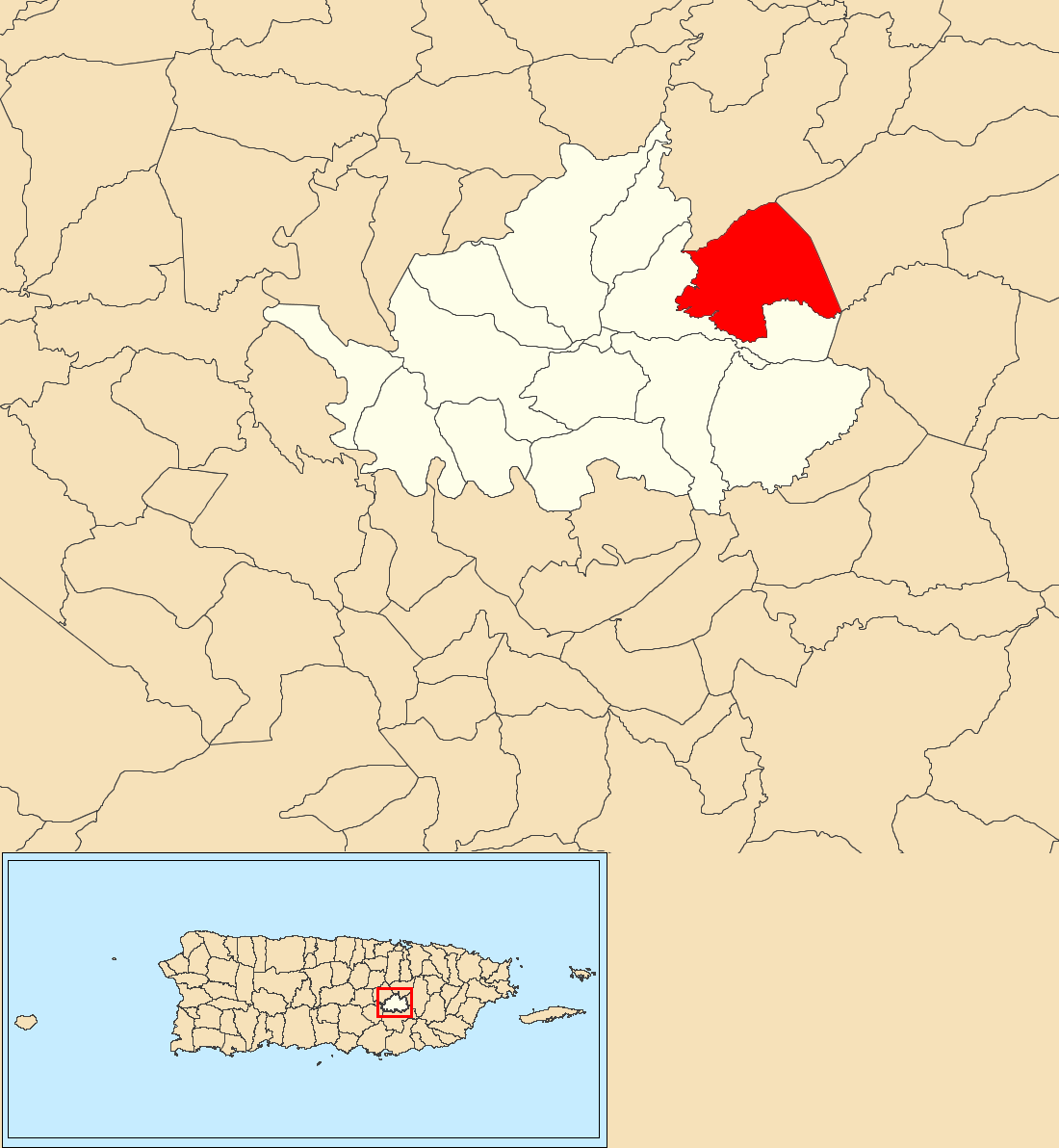 Certenejas, Cidra, Puerto Rico locator map